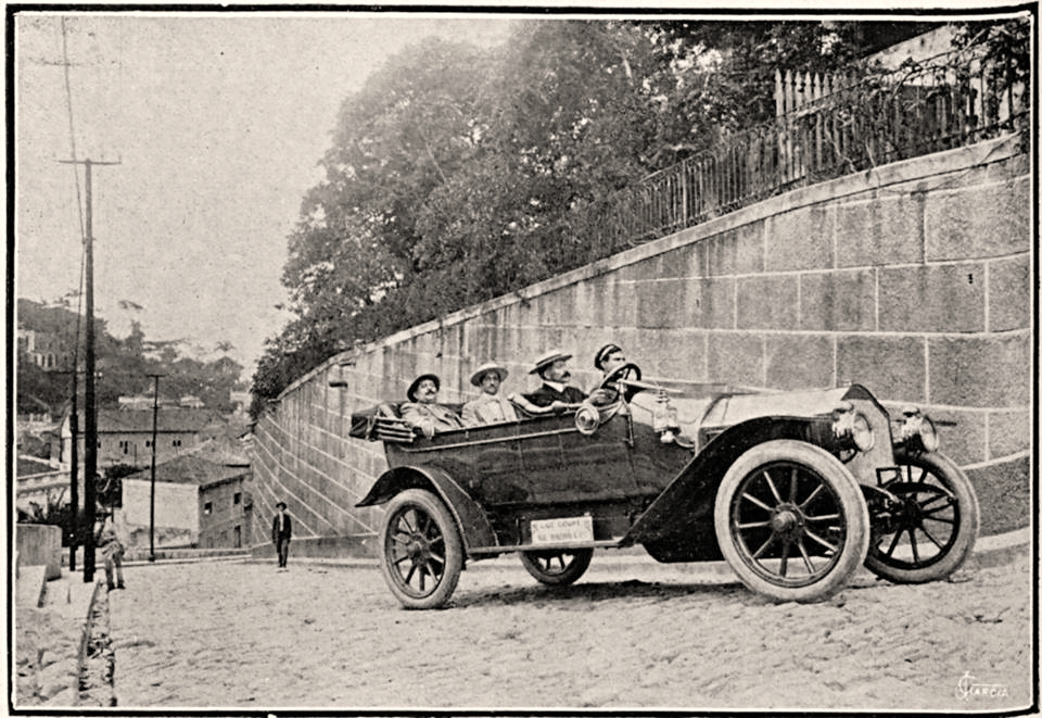 A Luc Court automobile climbs up a slope of Santa Teresa neighborhood, Rio de Janeiro, in 1912.